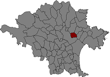 Location of Pedret i Marzà in Alt Empordà